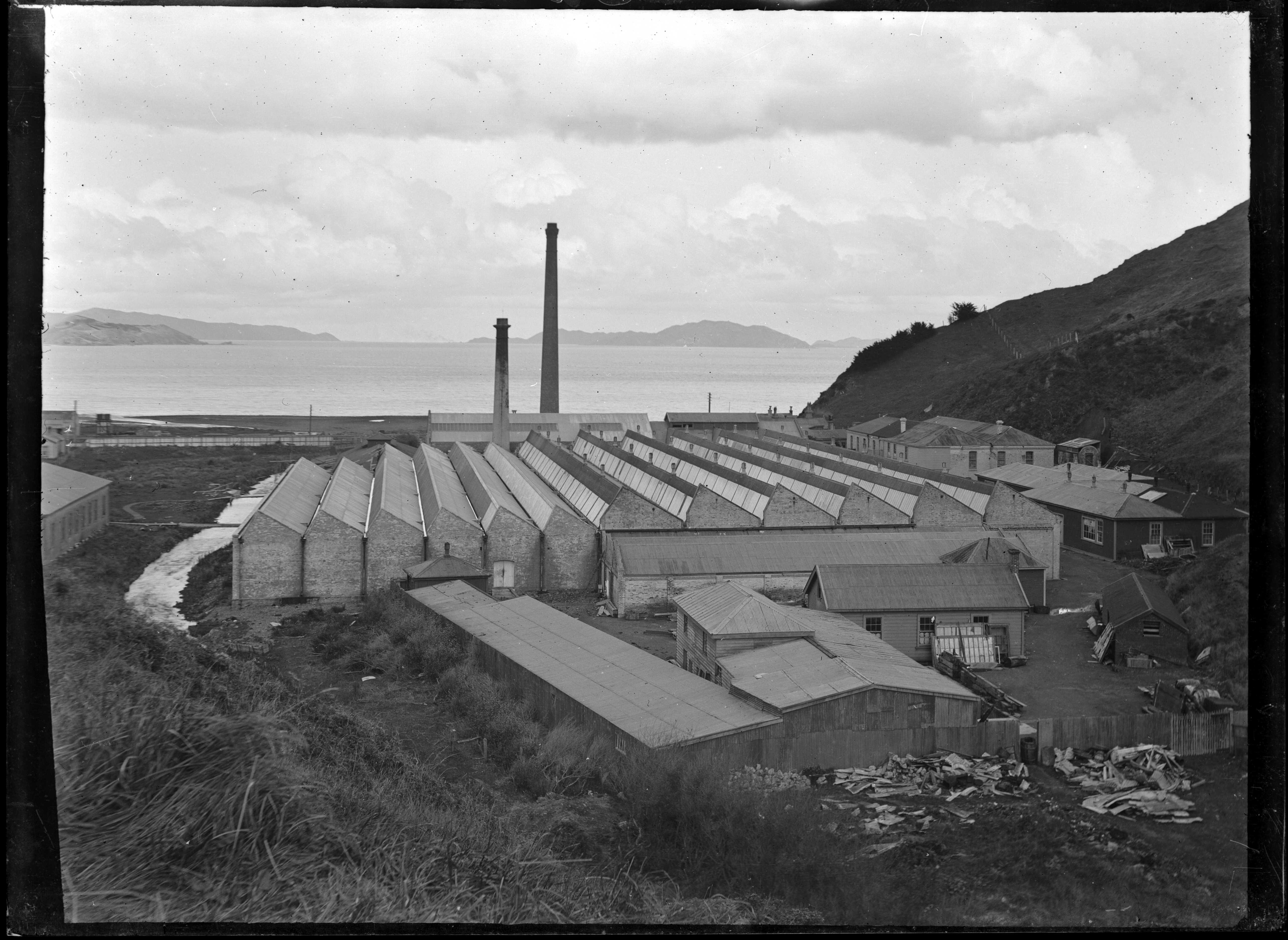 Petone Woollen Mills. Exterior view of the workshops of the Wellington Woollen Manufacturing Company at Petone. Photograph taken by A P Godber.